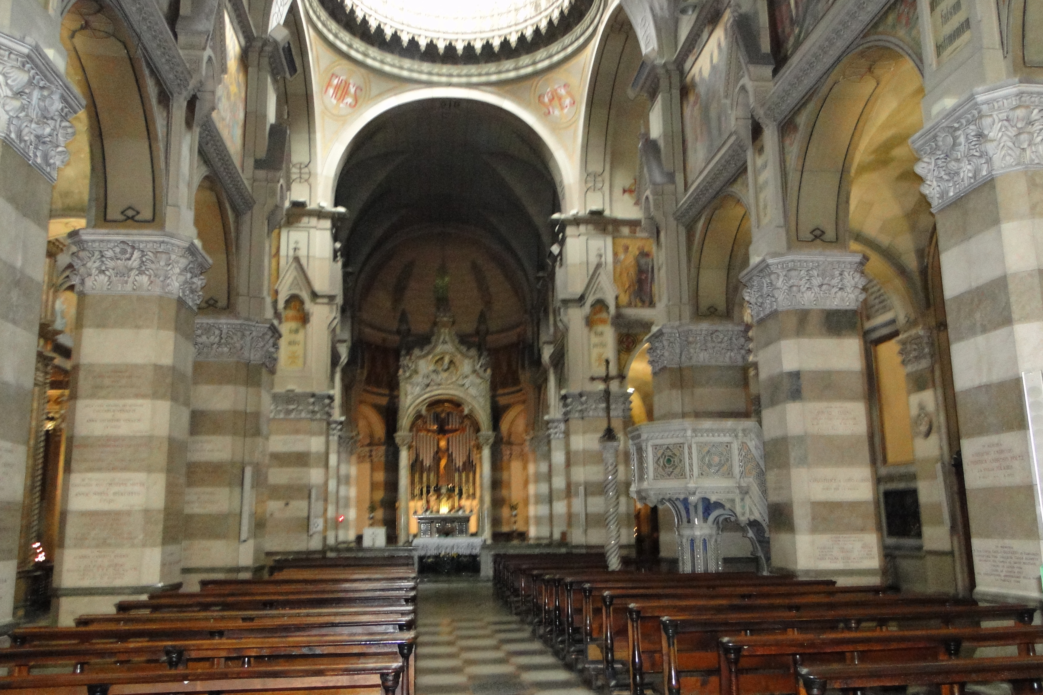 Church of Saint Dalmatius in Turin (Italy) - Nave